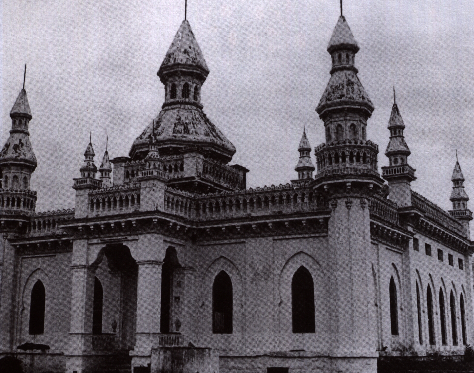 Mosque with in the Begumpet Palace of Hyderabad (Deccan). Built in Sarazene style 1906 for the Viqar ul-Umara, proime minister of that Indian Princely state